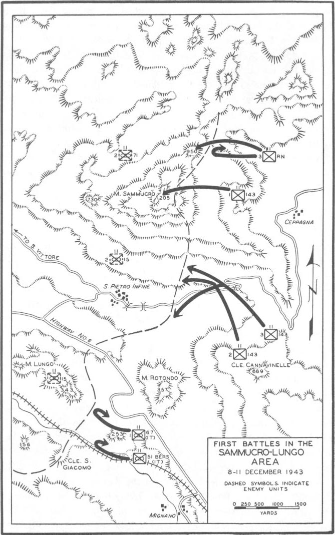 Map of First battles in the Sammucro-Lungo Area 8-11 December 1942